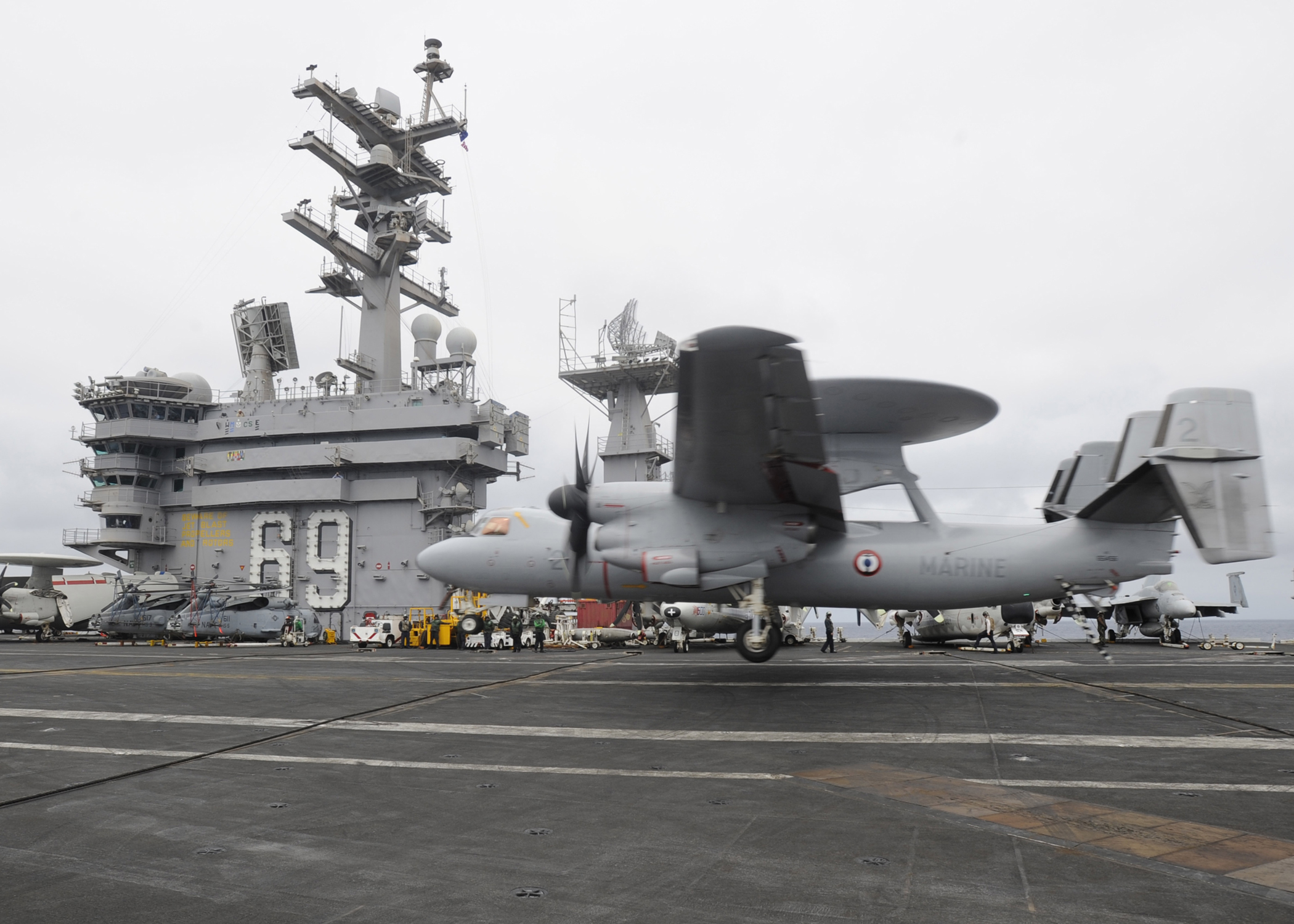 A French E-2C Hawkeye lands on the flight deck of aircraft carrier USS Dwight D. Eisenhower (CVN 69) during a coalition training exercise July 18, 2009, in the Atlantic Ocean.